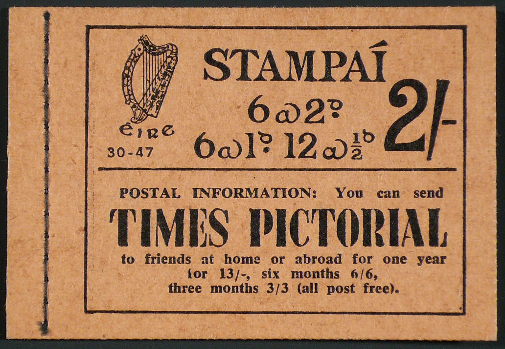 2 shillings stamp booklet issued by the Irish Post Office in 1947 (ex eBay sale 19 Dec 2009 - US $562.51)